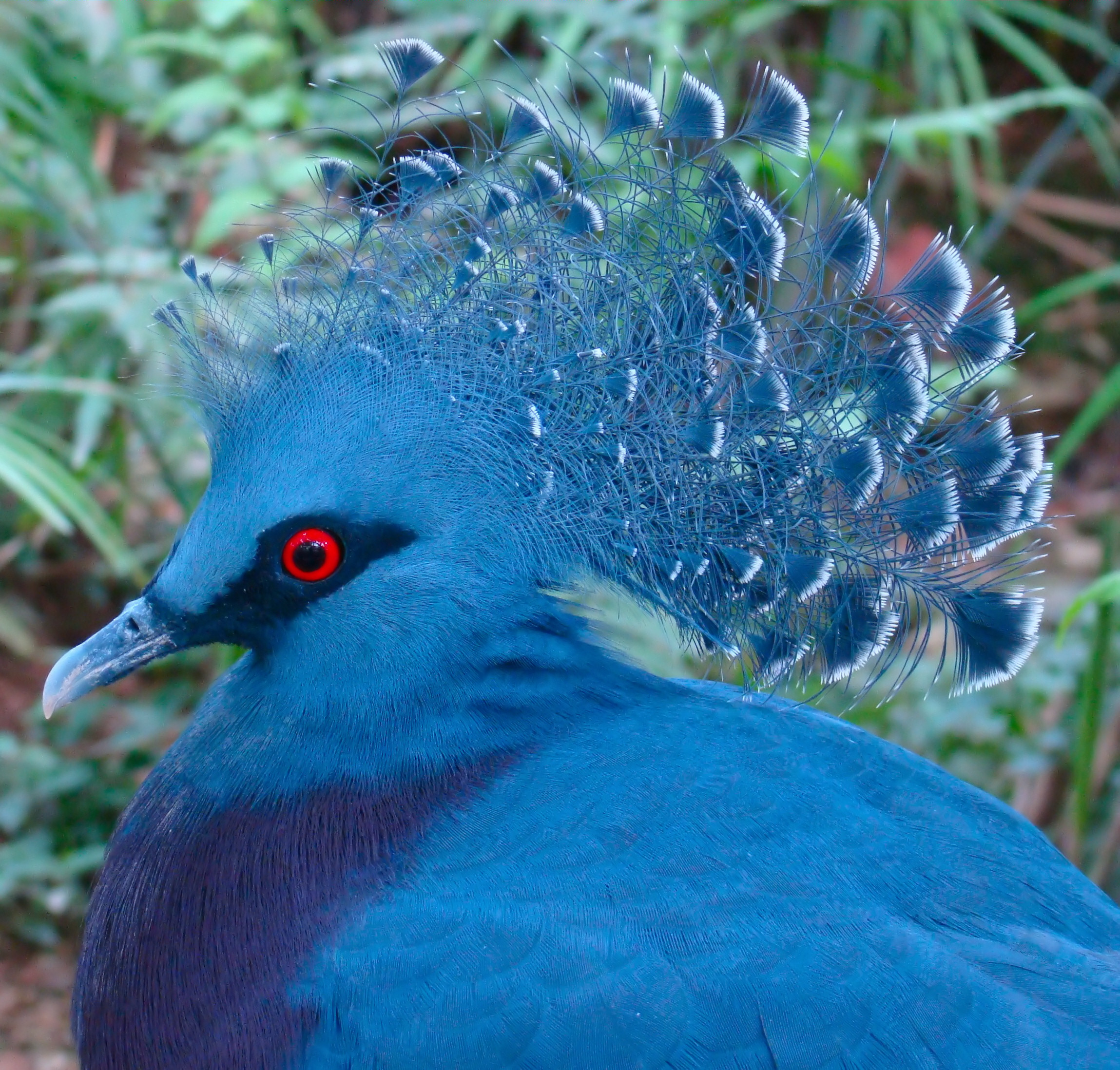 Headshot of a Victoria Crowned Pigeon, taken in Jurong Bird Park, Singapore.